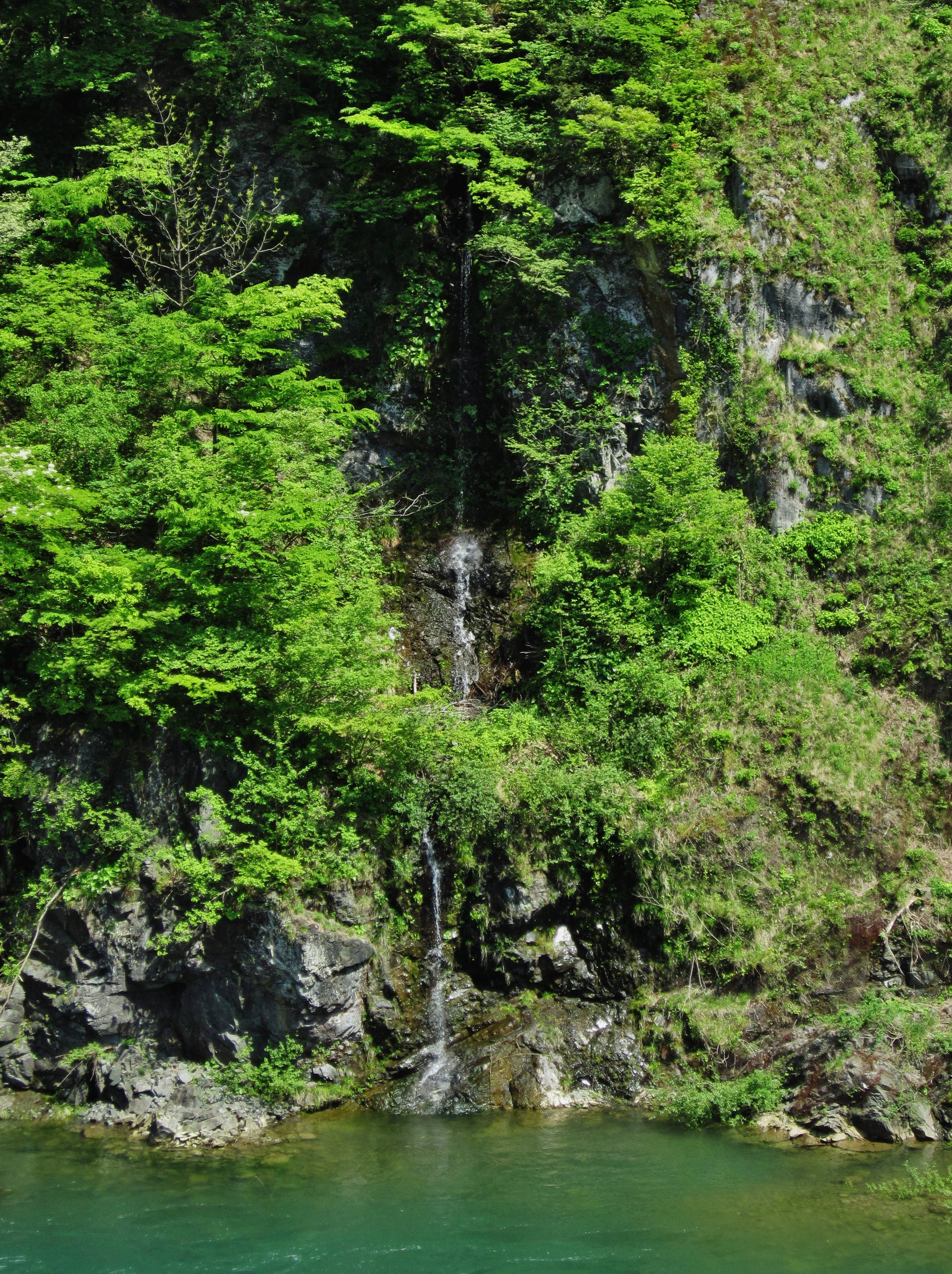 Masedonotaki Waterfall.